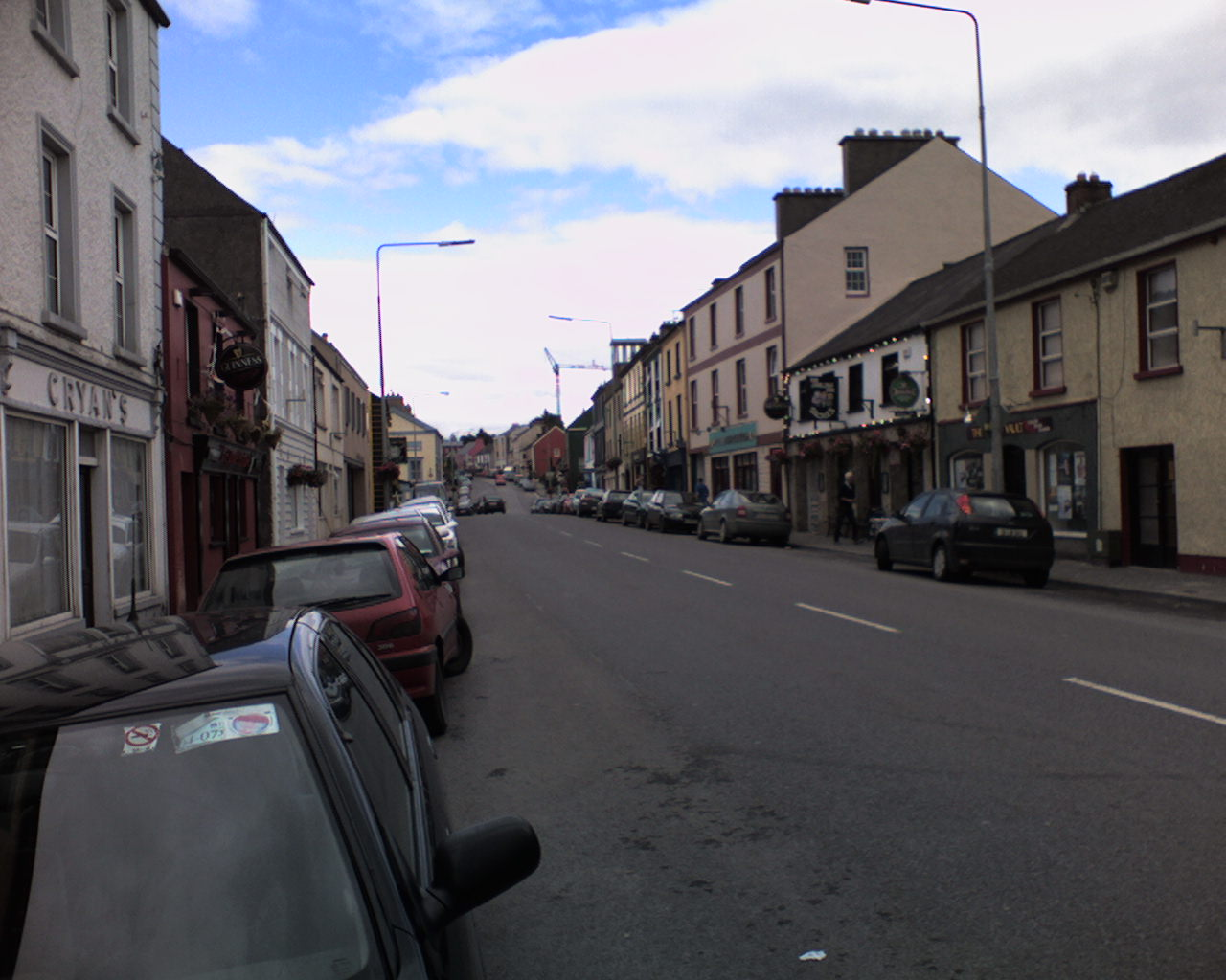 sean sweeney